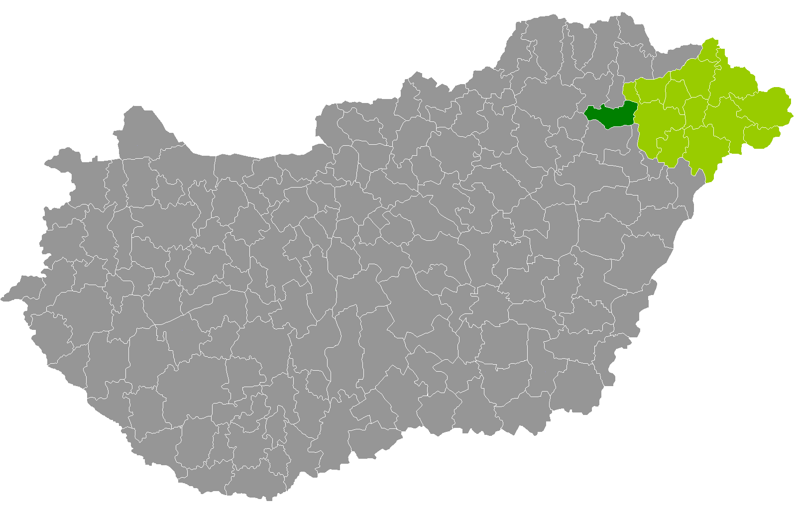 Location of Tiszavasvári District, Szabolcs-Szatmár-Bereg, Hungary